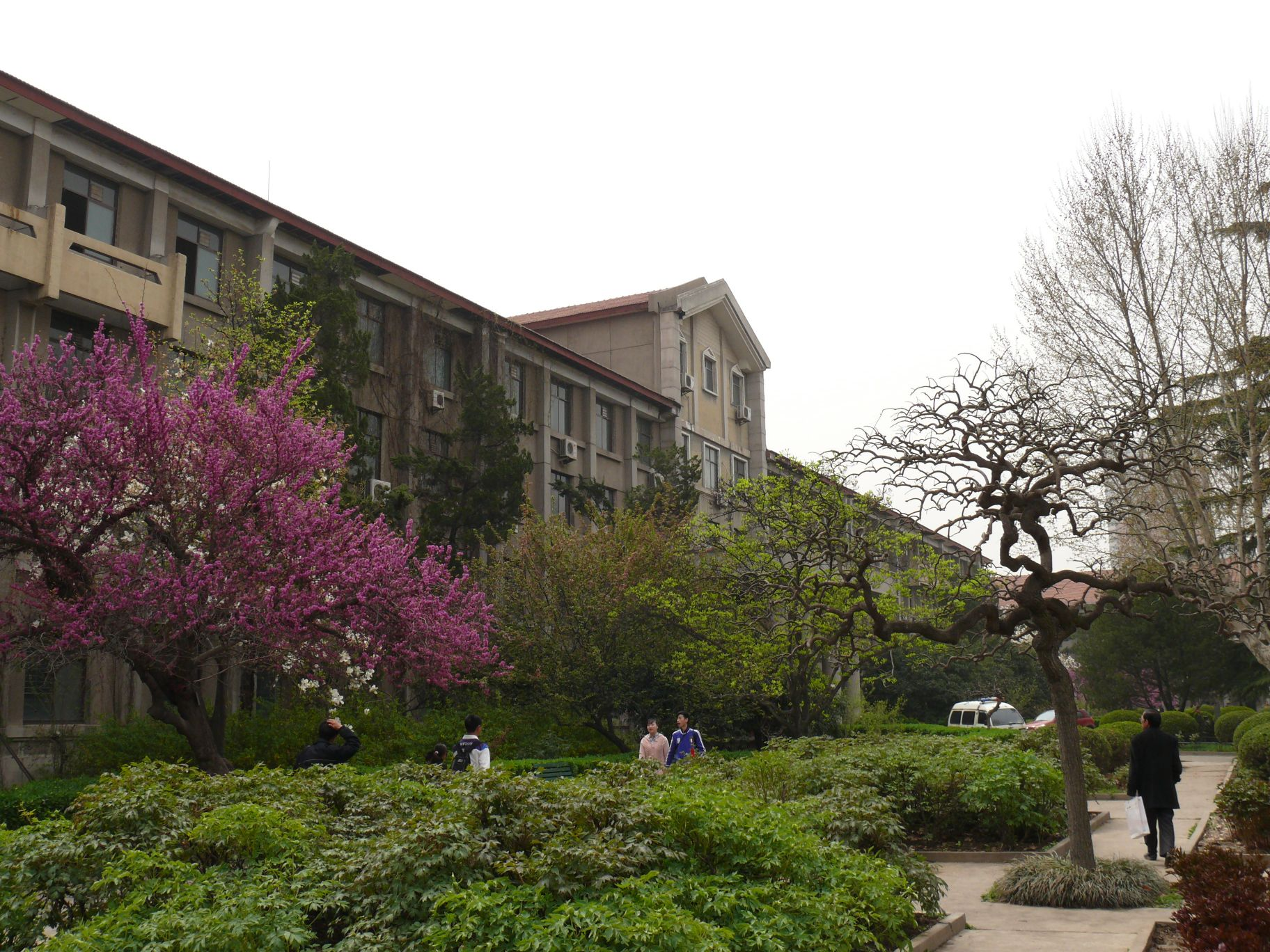 Building in Xi'an Jiaotong University (Shaanxi, China)